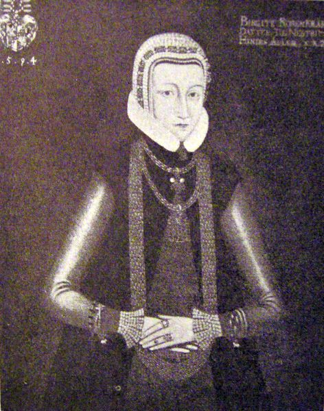 Birgitte Ottesdatter Rosenkrantz